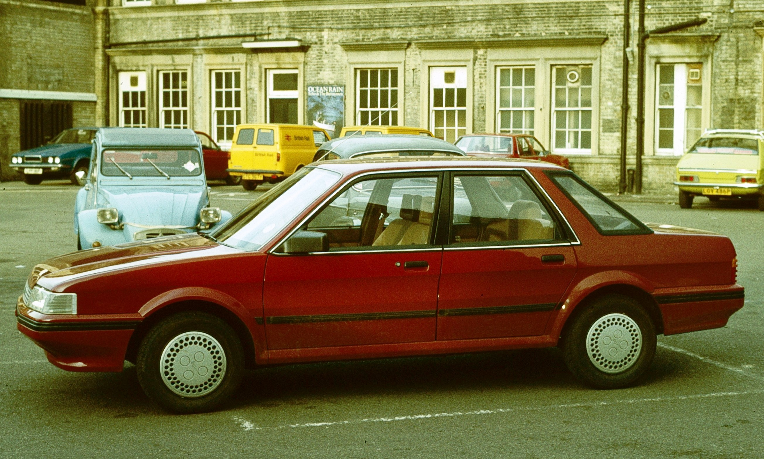 Austin Montego Cambridge station